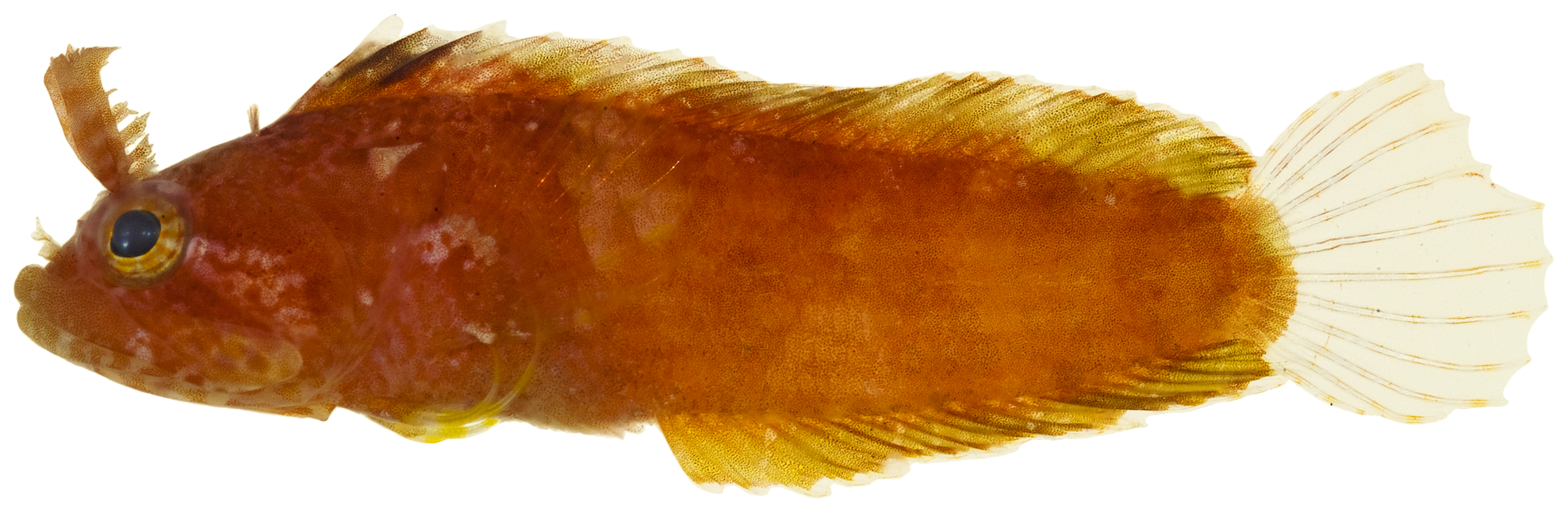 Paraclinus grandicomis (Rosen, 1911)—horned blenny, 27.1 mm SL. Photo by JT Williams.